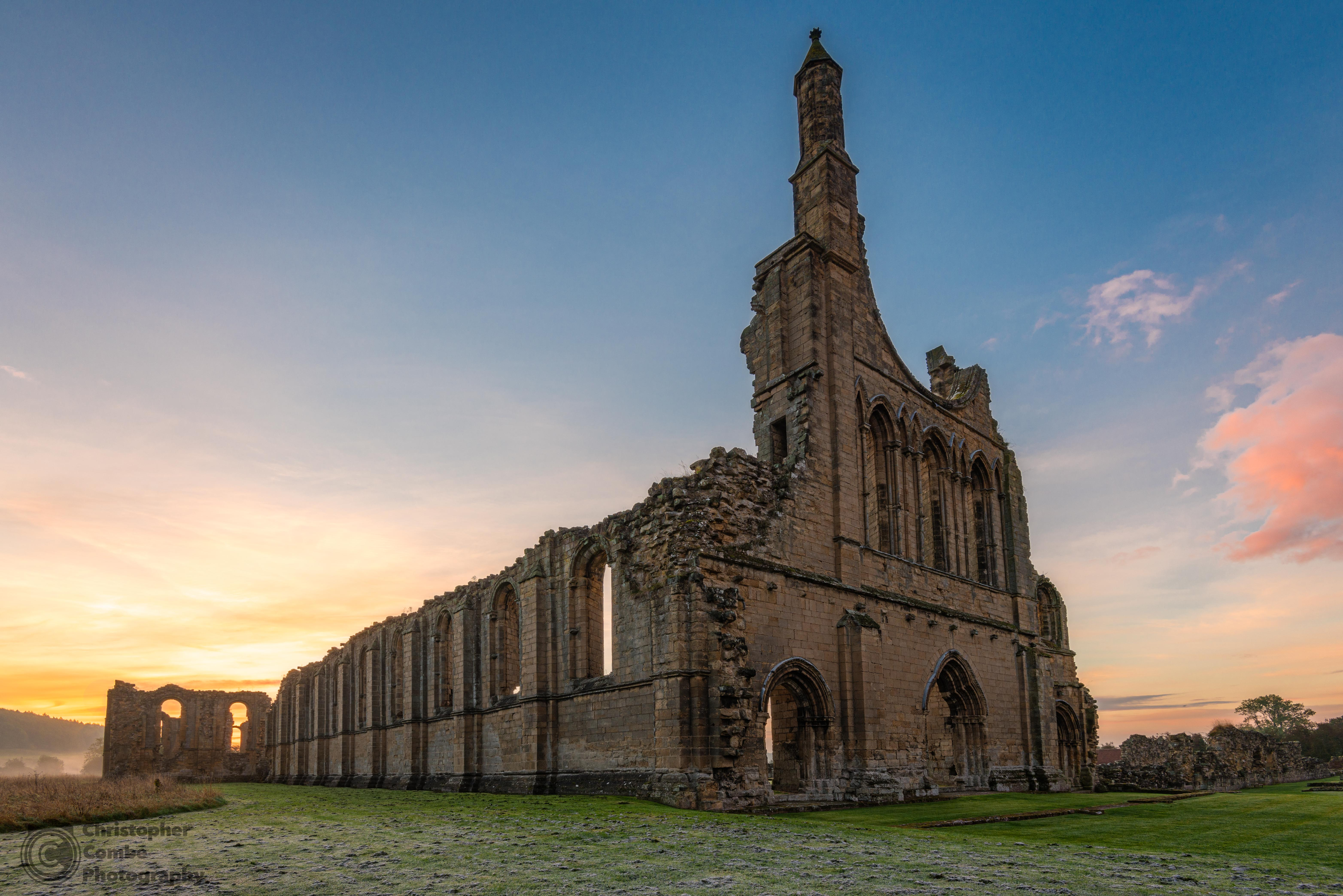 Something different...yay! I took all my gear home to Yorkshire this weekend and dragged myself out of bed at 6.00am this morning to catch what I hoped would be a nice sunrise in the North Yorks countryside. There are several examples of abbeys like this around and this is the closest to me. I think I struck lucky on a cold and frosty morning. Single exposure, edited in LR and PS.